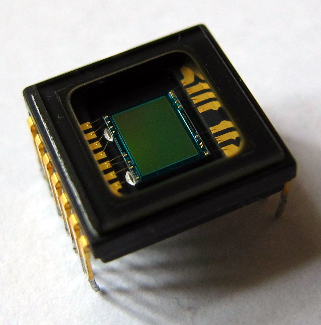 CCD sensor (a charge-coupled device) from a Sony video camera